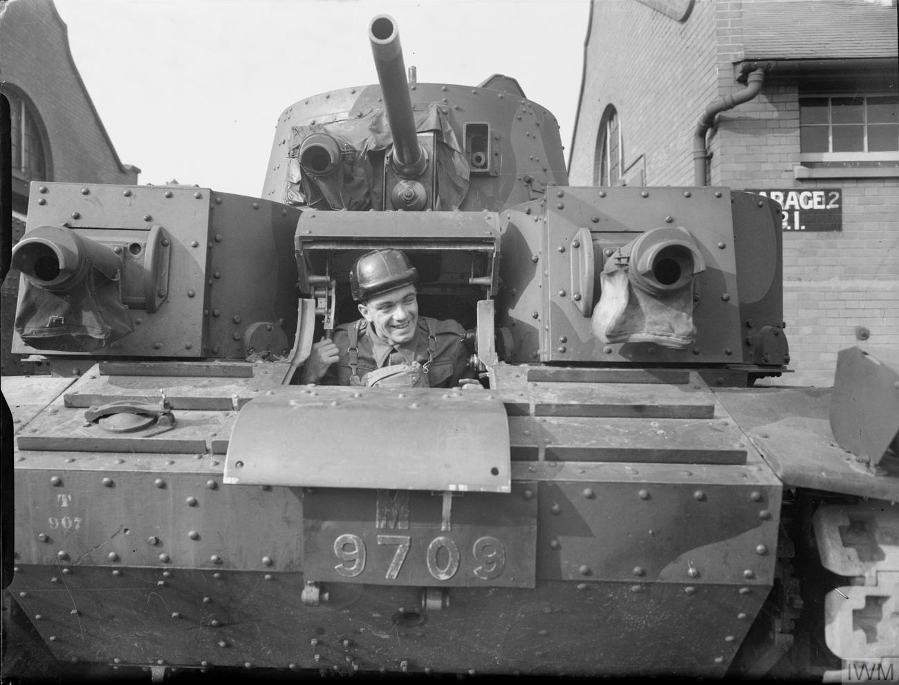 The British Army in the United Kingdom 1939-45 A trainee tank driver seated in a Cruiser Mk I of 53rd Training Regiment, Royal Armoured Corps, at Tidworth, 28 October 1940.